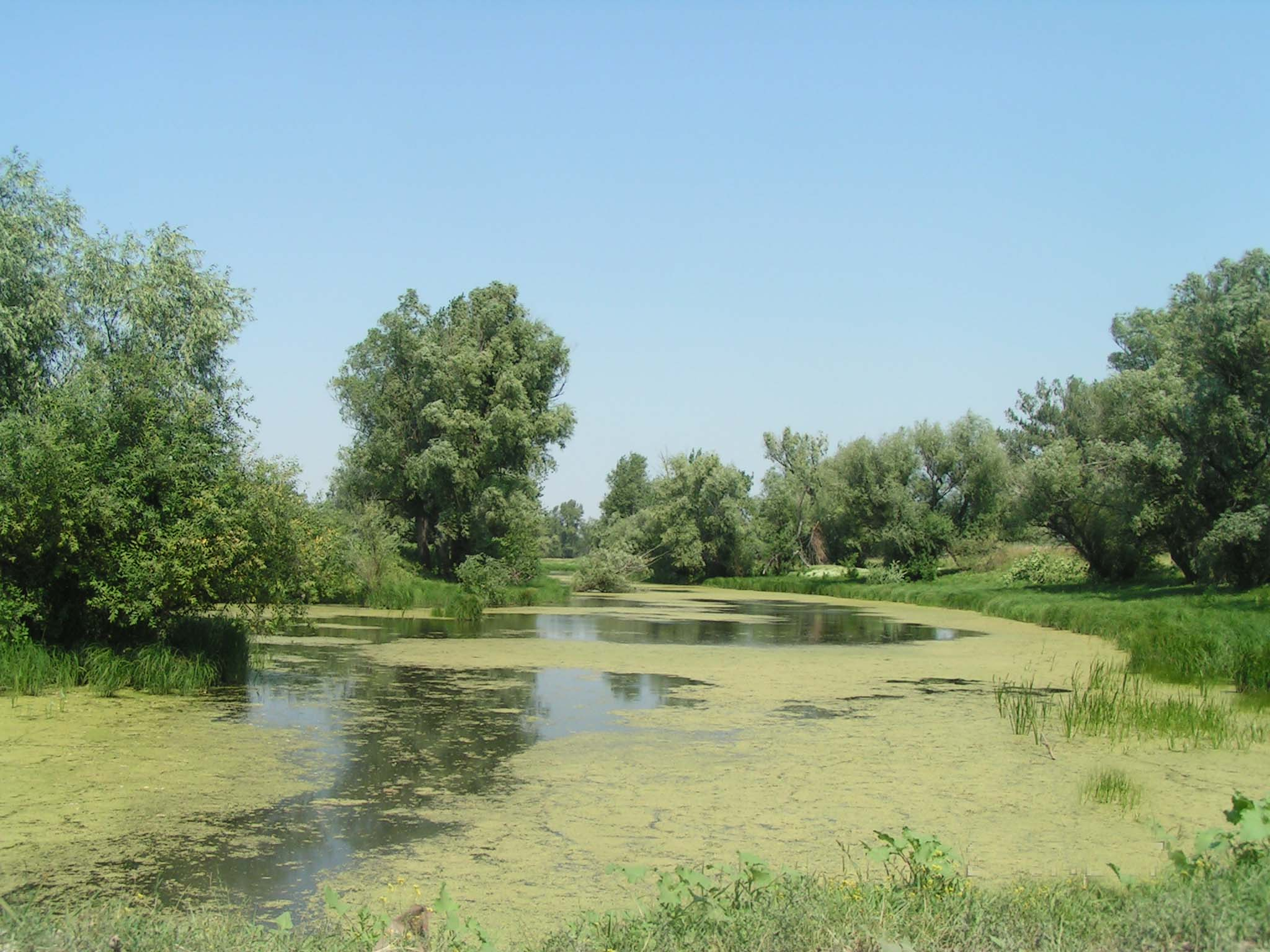 Erik Old Kashirin. Natural Park Volga-Akhtuba floodplain, Volgograd Region.